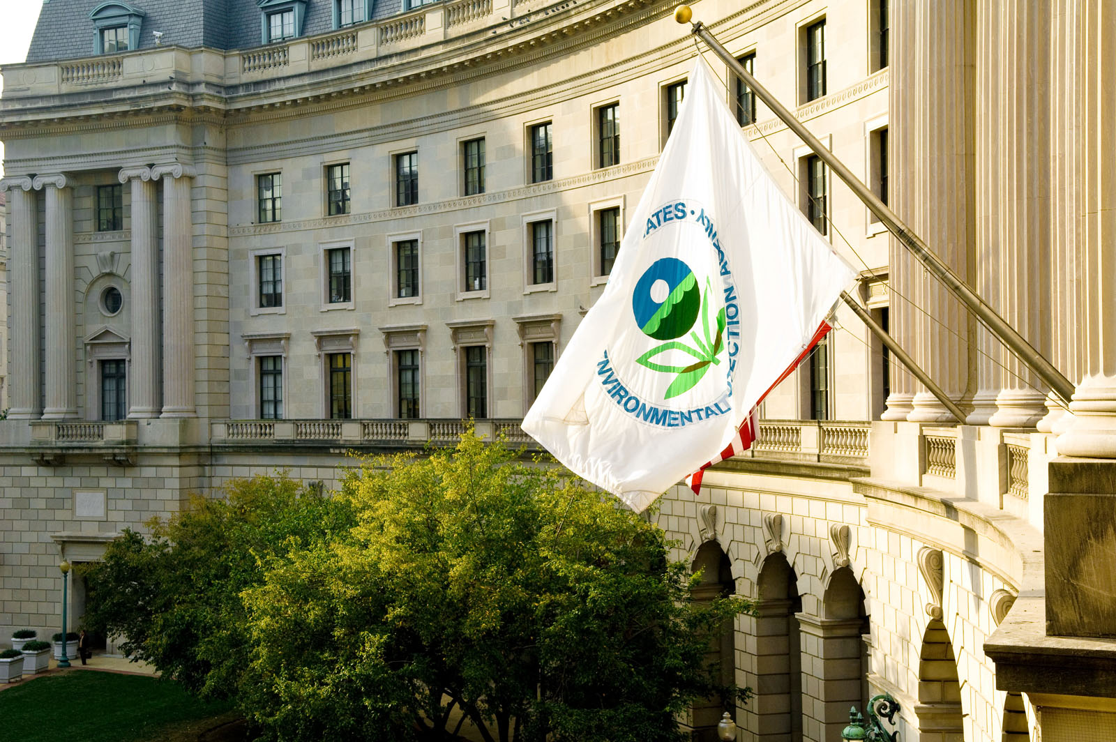 View of the William Jefferson Clinton Federal Building, Washington, D.C. Headquarters offices of the U.S. Environmental Protection Agency (EPA). EPA was established in 1970. Born in the wake of elevated concern about environmental pollution, EPA was established on December 2, 1970 to consolidate in one agency a variety of federal research, monitoring, standard-setting and enforcement activities to ensure environmental protection.